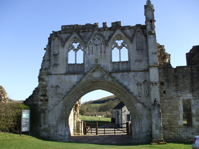 The Gatehouse of Kirkham Priory Built c.1290-5 this splendid specimen of English Gothic medieval architecture, has a wide arch of continuous mouldings with a crocketed gable running up to the windows. Sculptures of S.George and the Dragon on the left, and David and Goliath to the right. Above the arch is Christ in a pointed oval recess, plus two figures below of St. Bartholomew and St. Philip, in niches.There are also many shields with the coats of arms of the benefactors of the Priory, including the arms of 'de Ros', 'Scrope' and 'de Fortibus'.